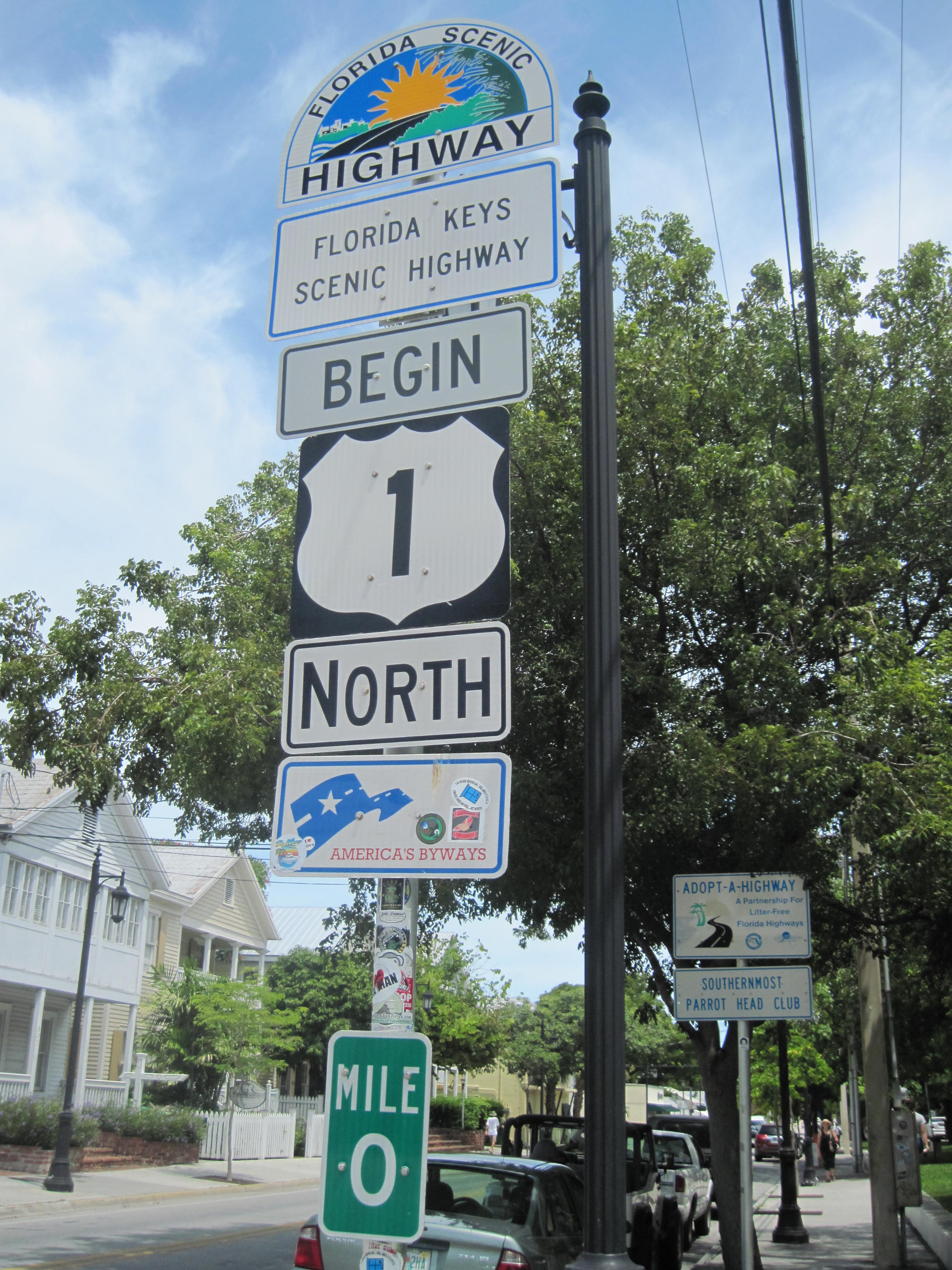 Southernmost point of U.S. Highway 1 in Key West, Florida